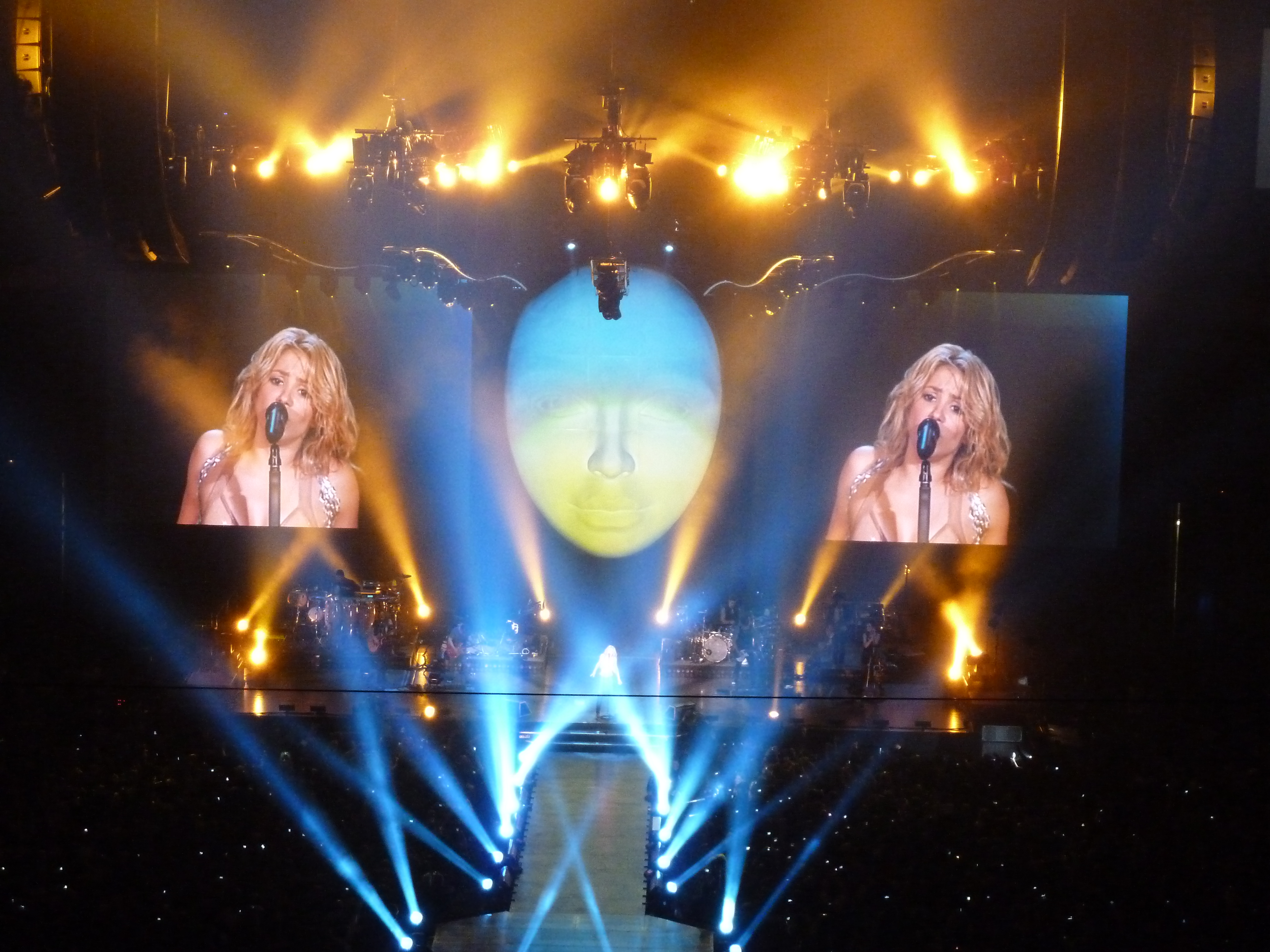 Shakira (Madrid)